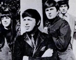 Trade ad for The Mojo Men's single "Sit Down I Think I Love You". To better adapt it to his respective Wikipedia article, the ad was cropped and cleaned in a graphics editing program. The original can be viewed at the source below.